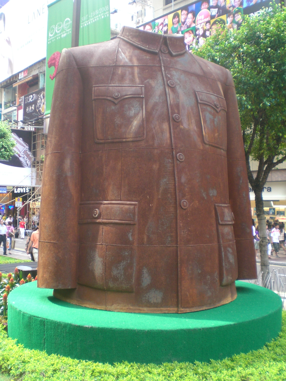 香港時代廣場當代藝術展覽2008年8月, Sui Jianguo 隋建國Art Exhibition in 2008